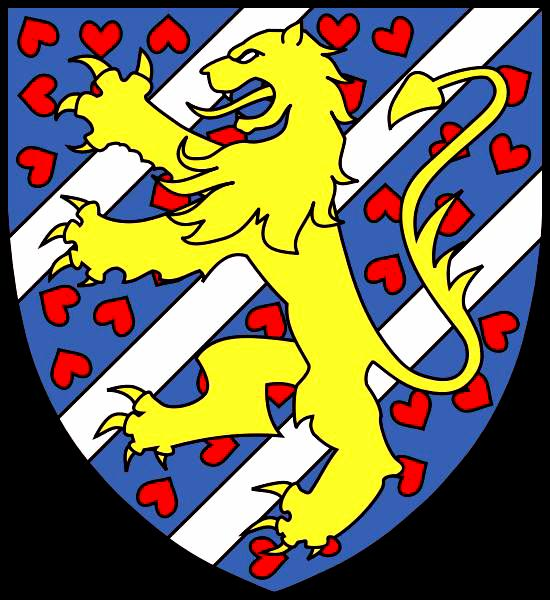 Coat of arms of the royal Swedish Bielbo (Folkung) Dynasty